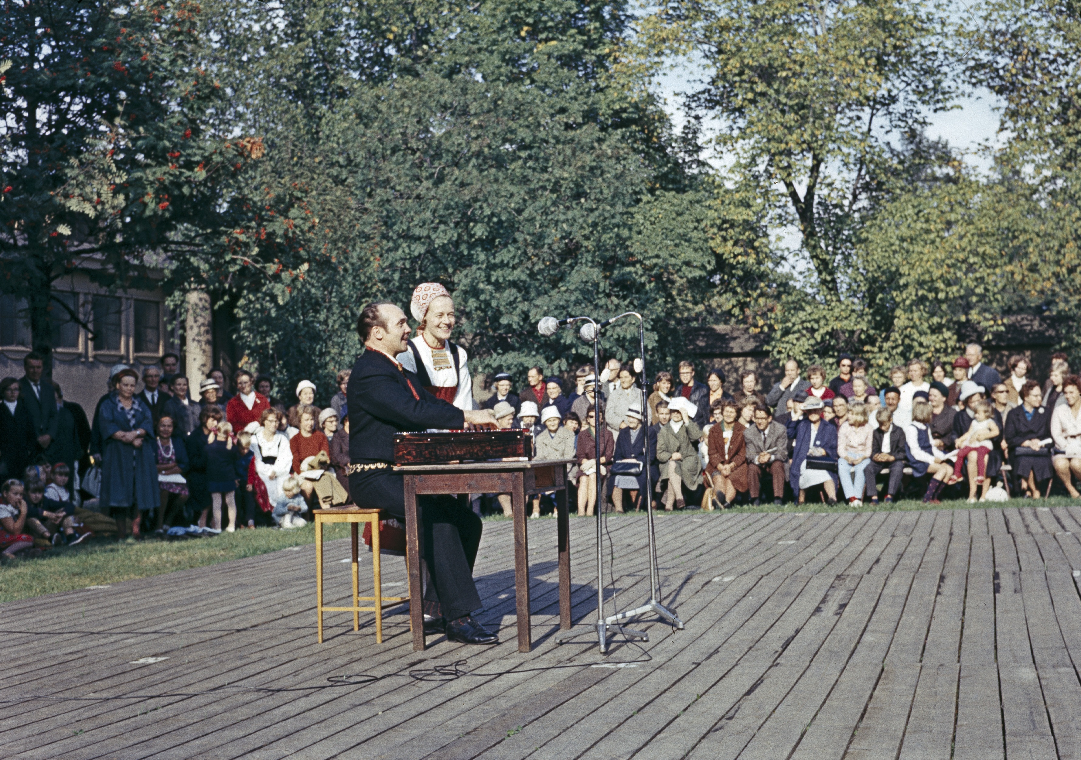 Martti and Marjatta Pokela performing at the courtyard of the National Museum of Finland in September 1966.